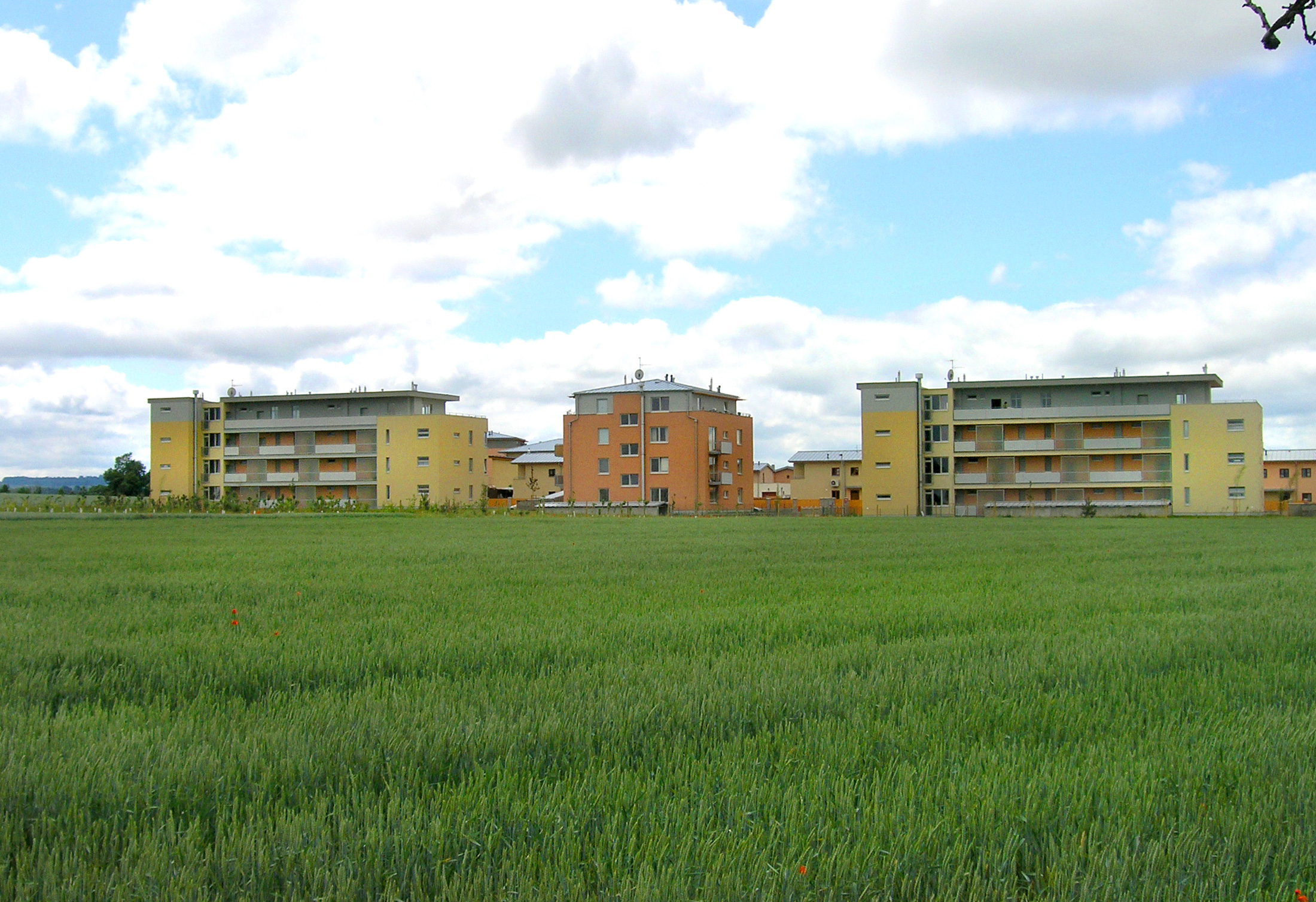 Kupkova street at Kolovraty, Prague. View from Nedvězí.